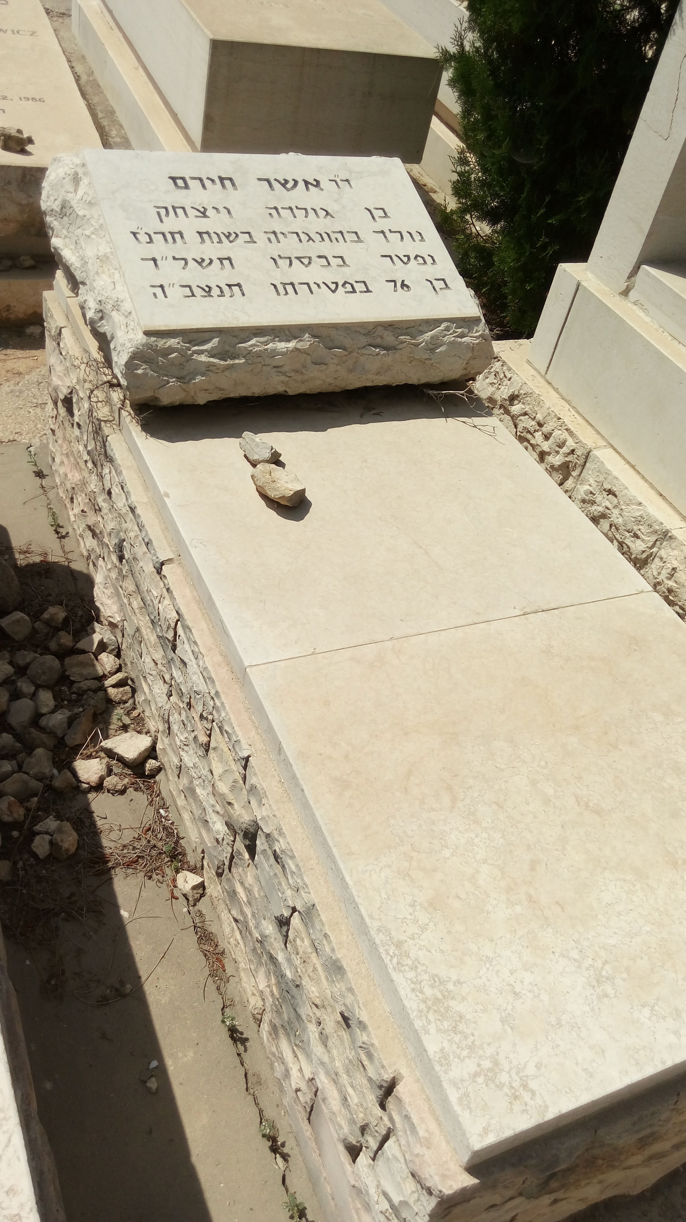 Headstone of Asher Hiram, Har Hamenuchot Cemetery, Jerusalem